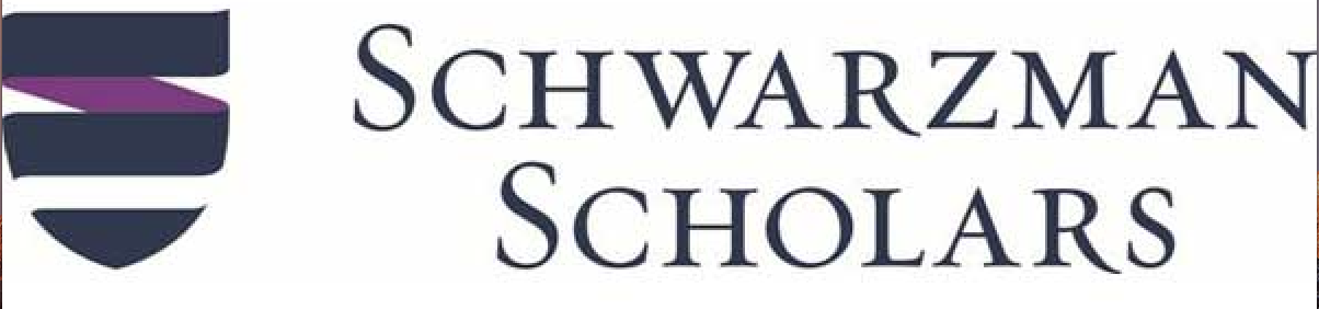 Schwarzman Scholars logo